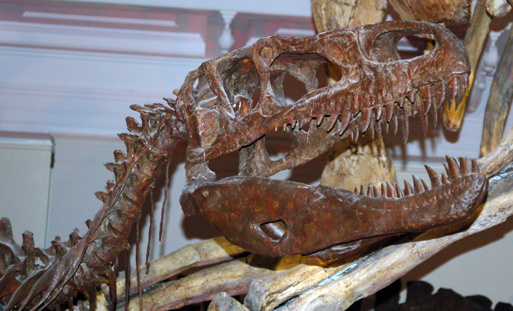 Photo: mounted cast of an Afrovenator abakensis skeleton at the Australian Museum, Sydney.